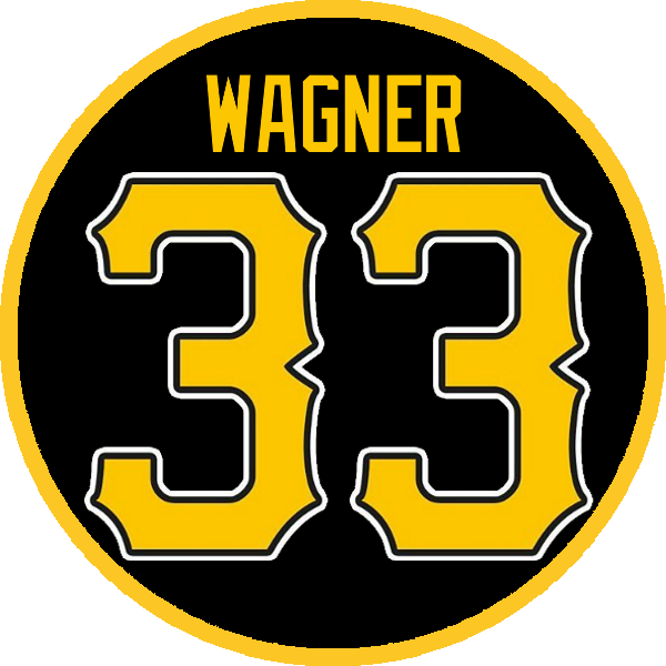 Pirates #33 Honus Wagner